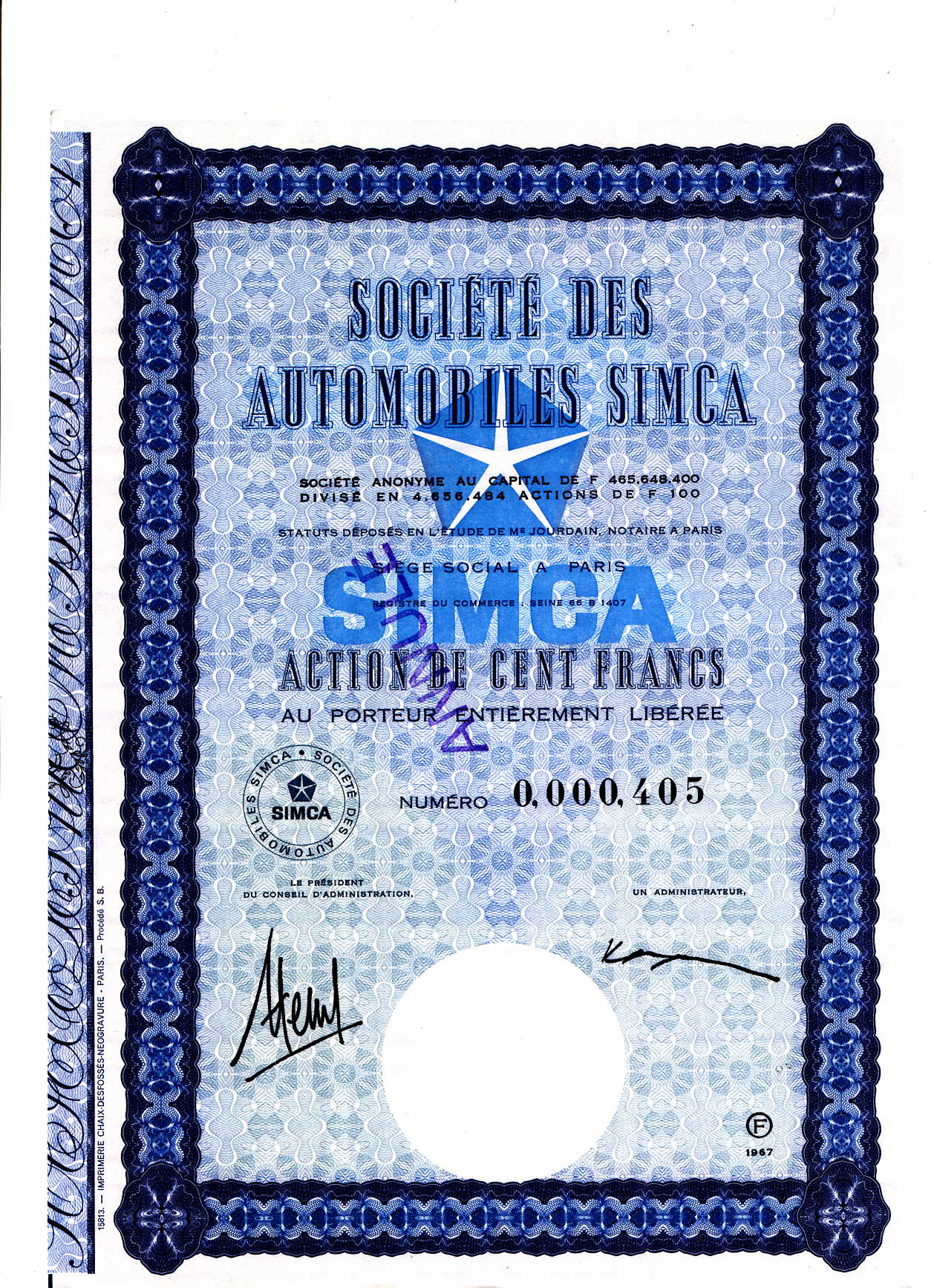 Scan from historic paper taken by user